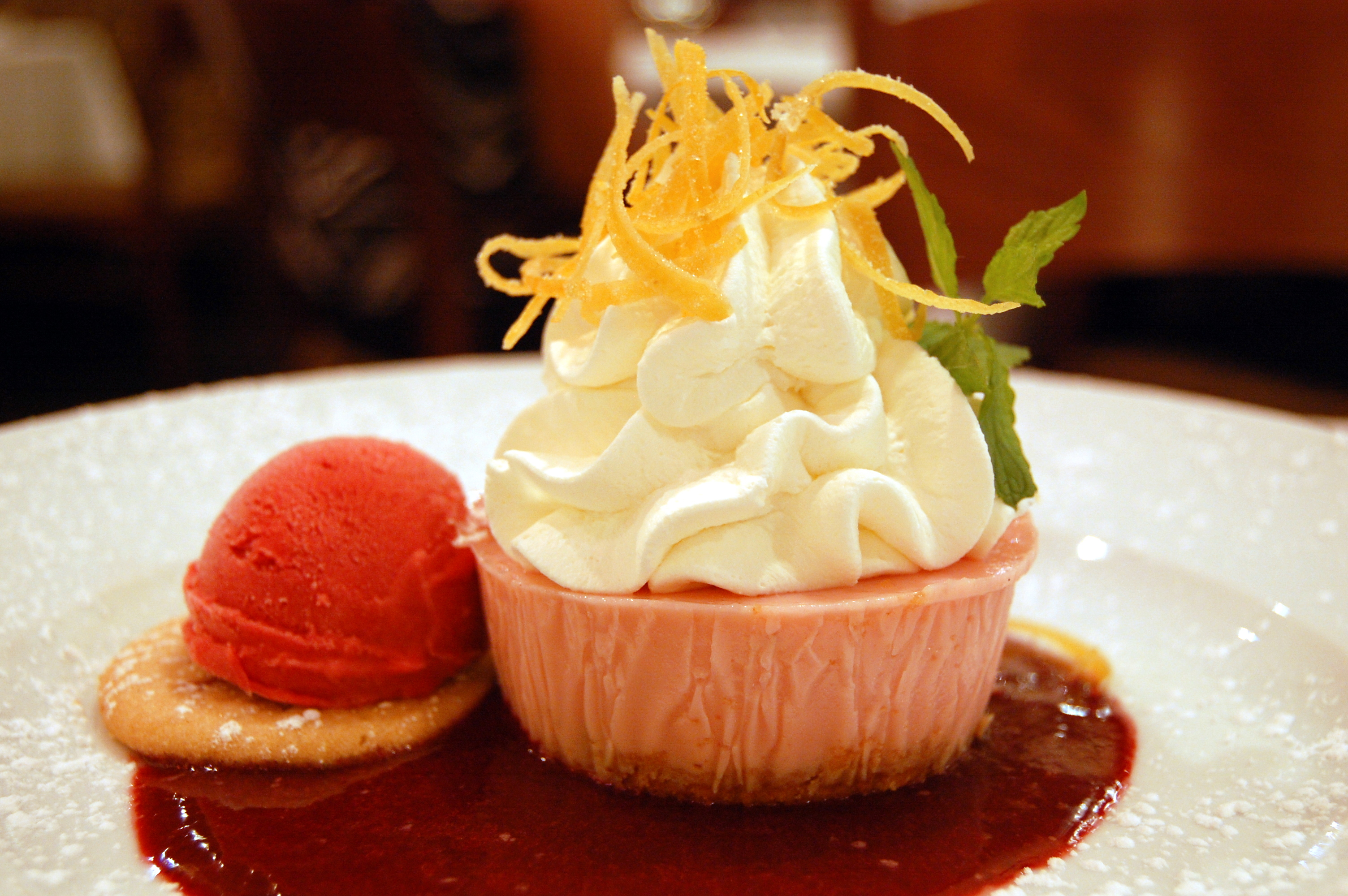 Lemon ice box pie with raspberry sorbet. Lemon ice box pie is a dessert consisting of lemon juice, eggs, and condensed milk in a pie crust. Its preparation is very similar to that of Key lime pie, with lime juice replaced in the recipe by lemon juice.